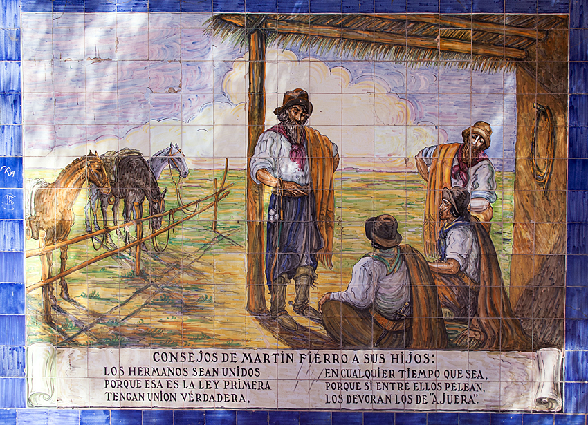 Martin Fierro tiled picture on a wall of a park in the city of Mendoza, Argentina